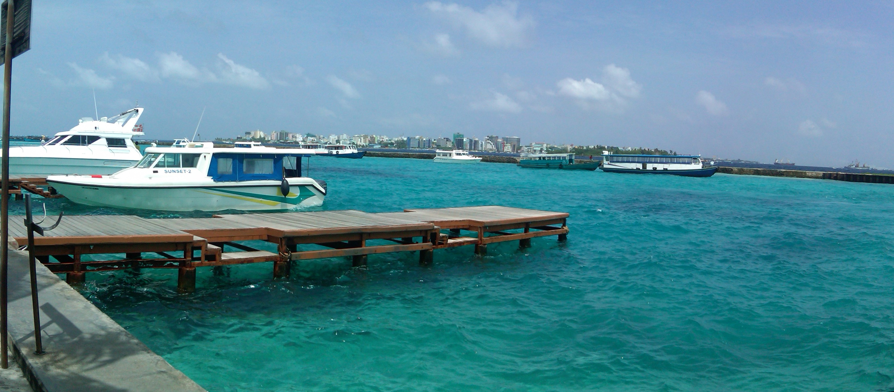 Male' as seen from Hulhule' ferry terminal